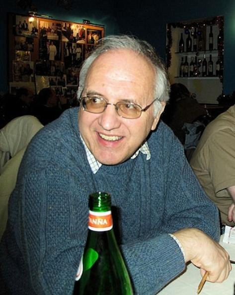 Michel Caillaud at problemist meeting "Sant'Ambrogio 2009" in Milano.